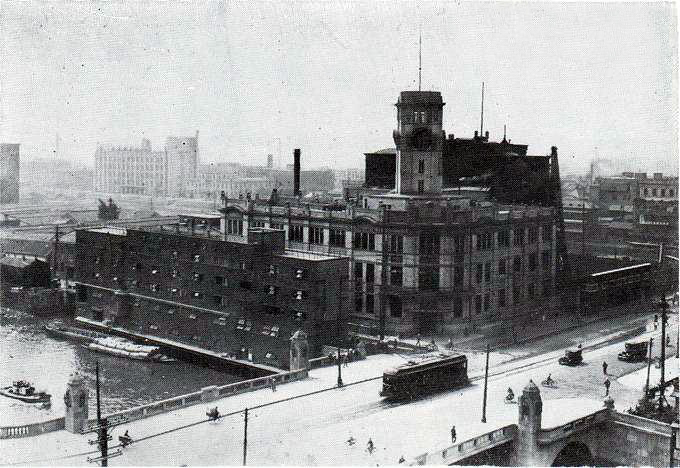 Osaka Asahi Shimbun Company Building